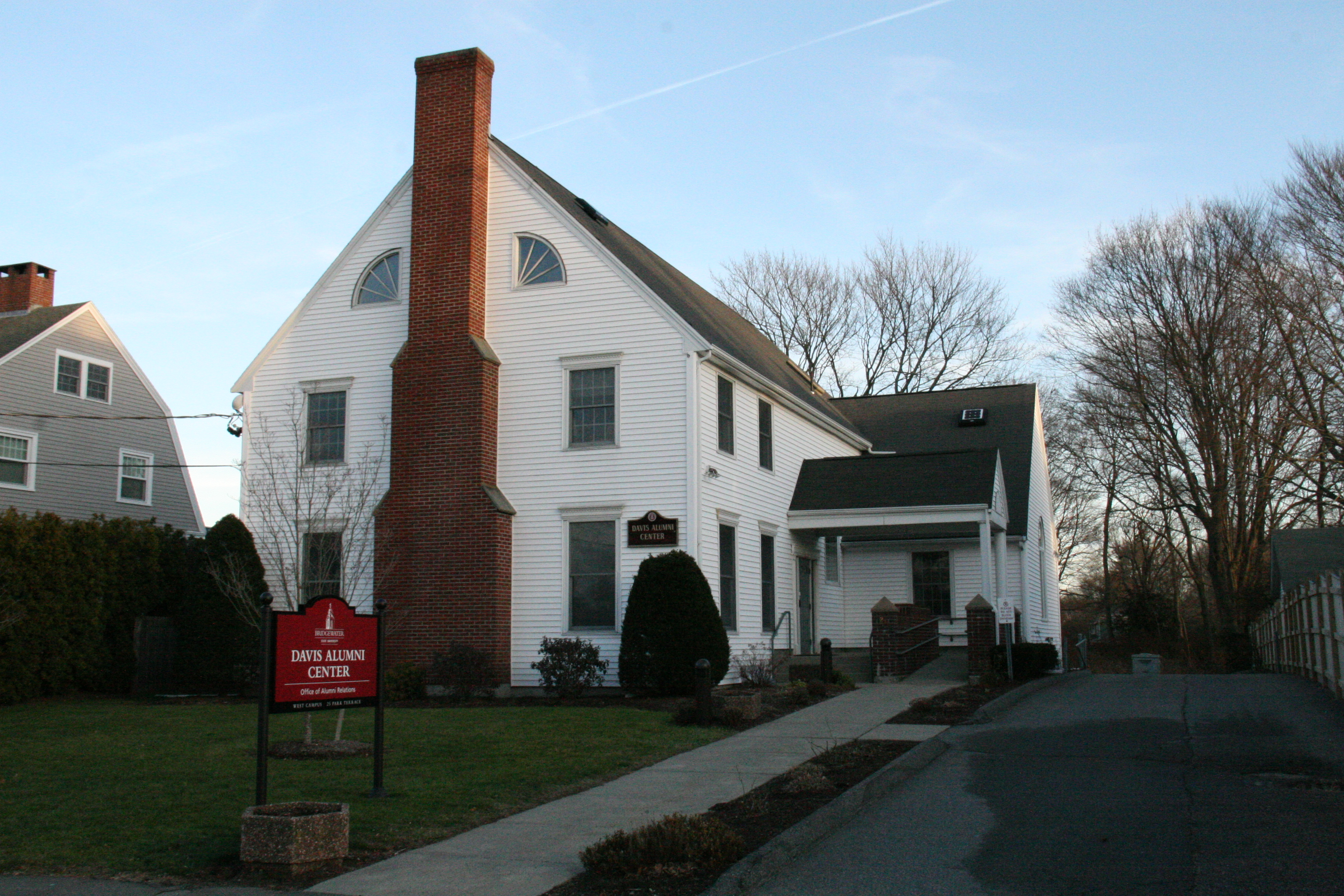 Bridgewater University 25 Park Terrace Bridgewater Ma.